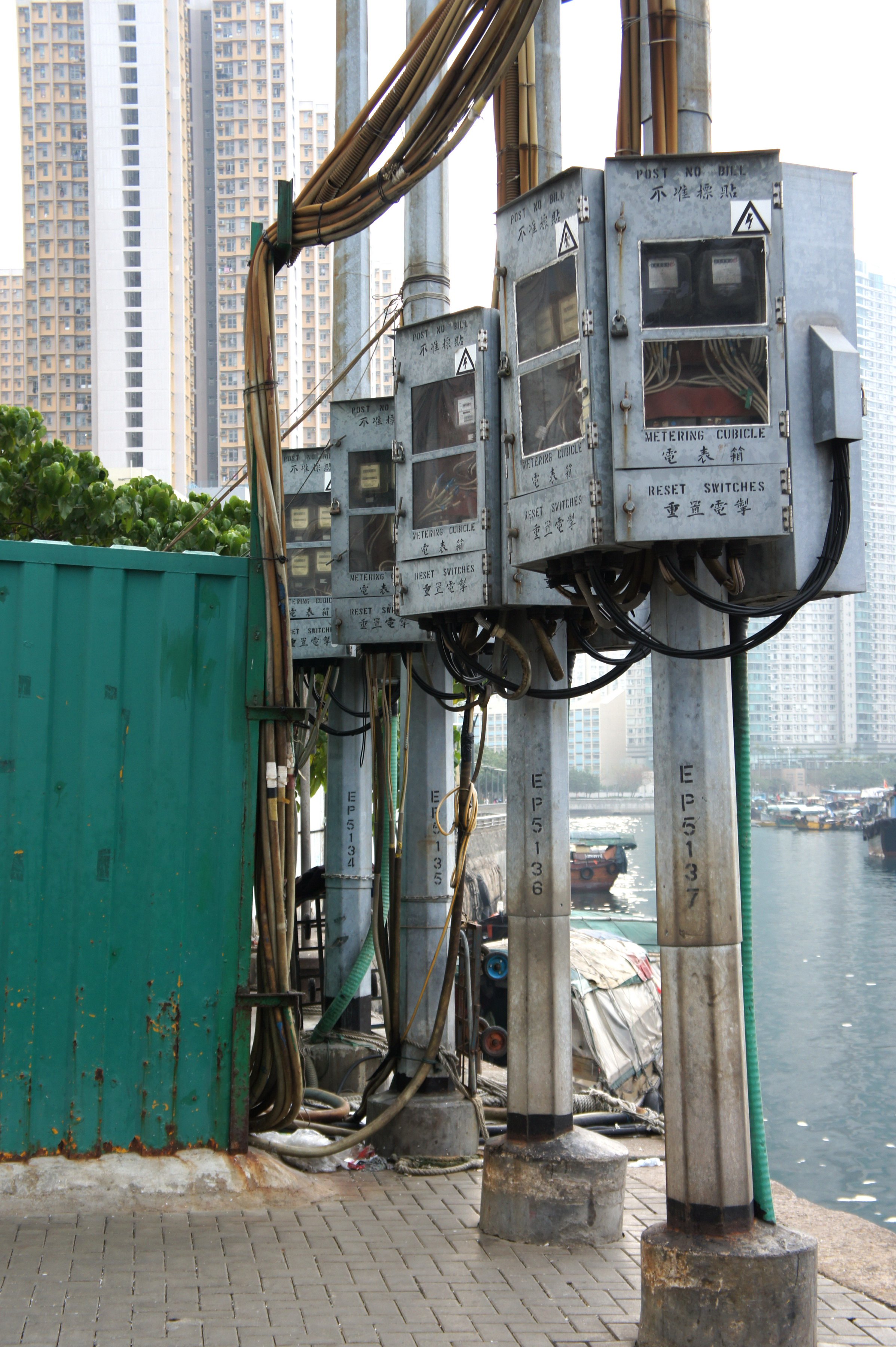 Electricity meters inside outdoor metering cubicles located at Tam Kung Temple Road in Shau Kei Wan, Hong Kong.